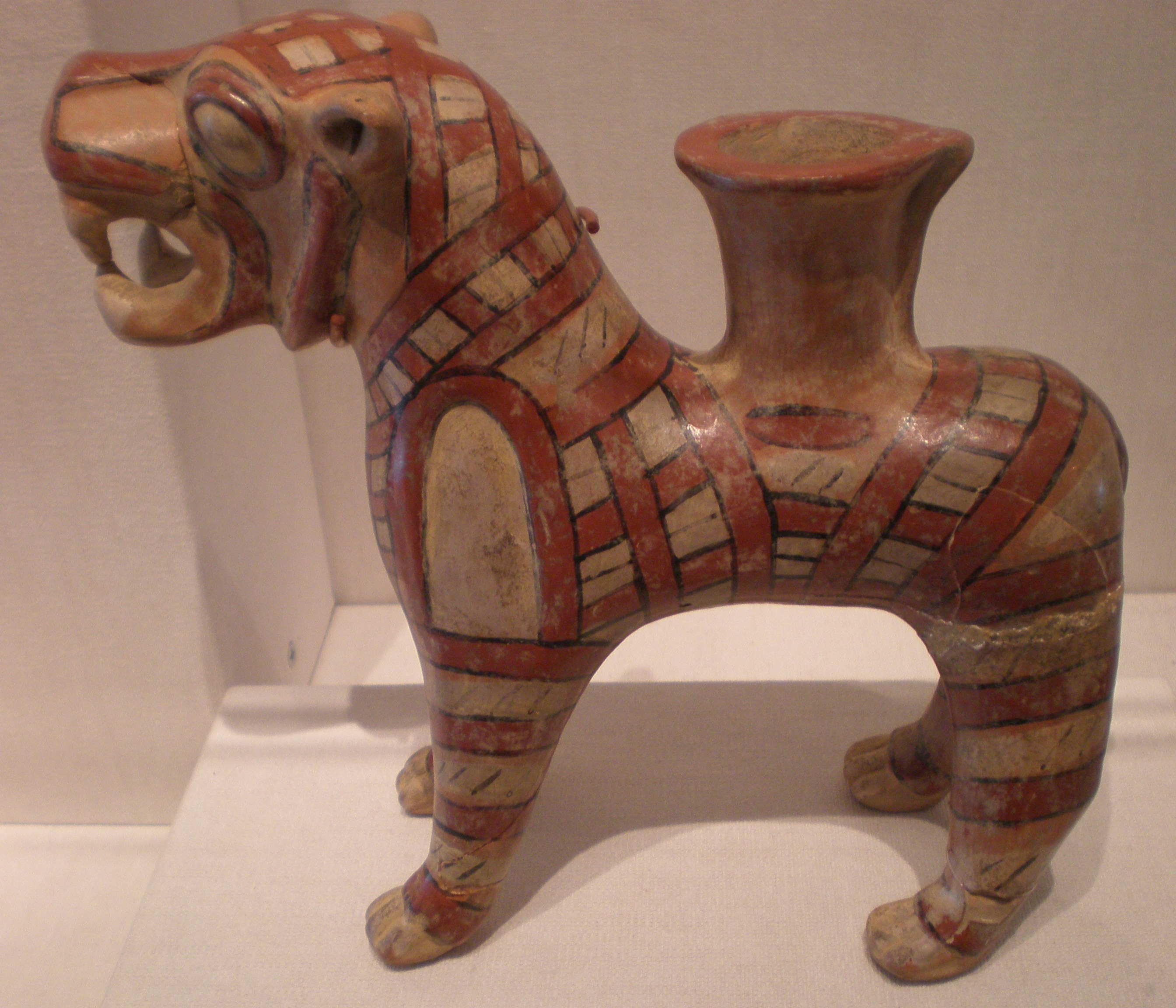 Terracotta lion-shaped rhyton from Kültepe, Anatolia, karum period, ca. 1860-1780 BC. On display at the California Palace of the Legion of Honor in San Francisco. 1924.15